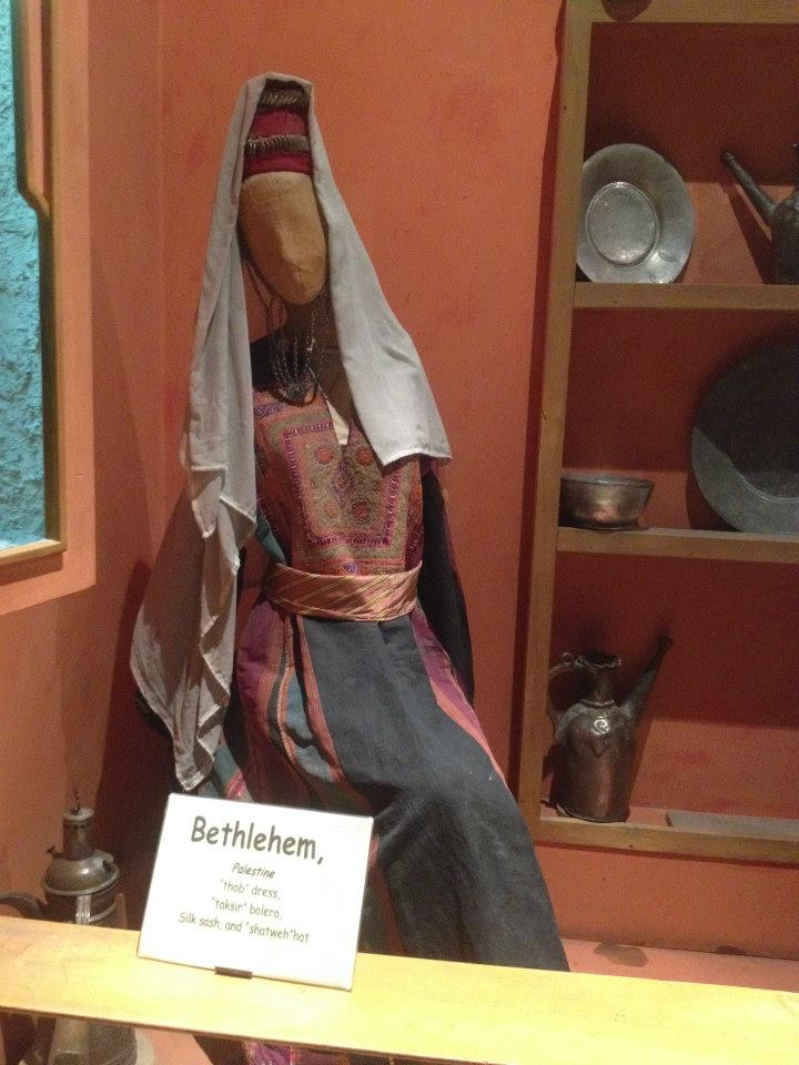 Traditional Costume of Bethlehem in Palestine